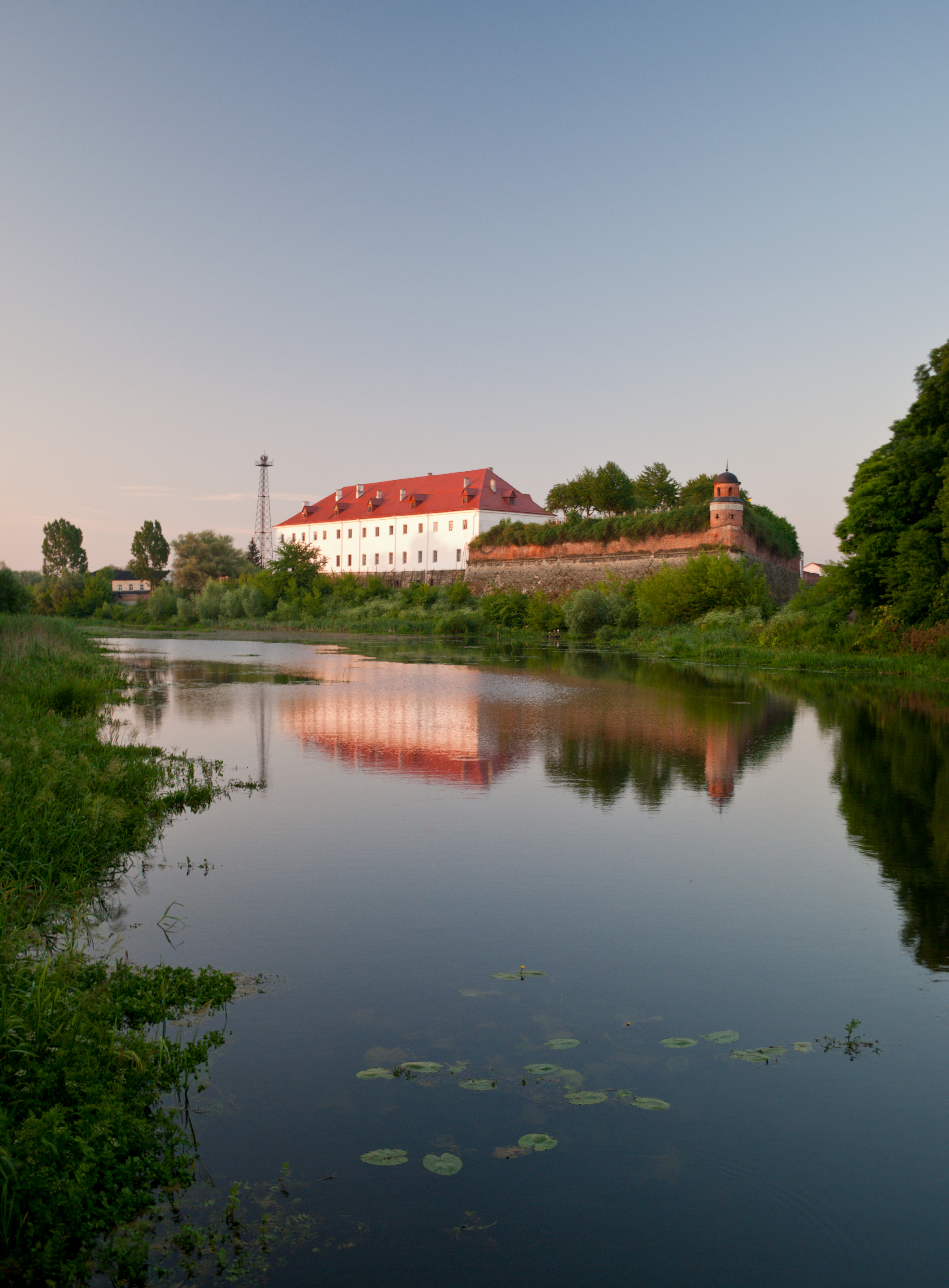 View from the bank of Ikva River over 16th-century Dubno Castle of Ostrogski and Lubomirski (architectural monument of the national significance №609). Dubno, Rivne Oblast, Ukraine